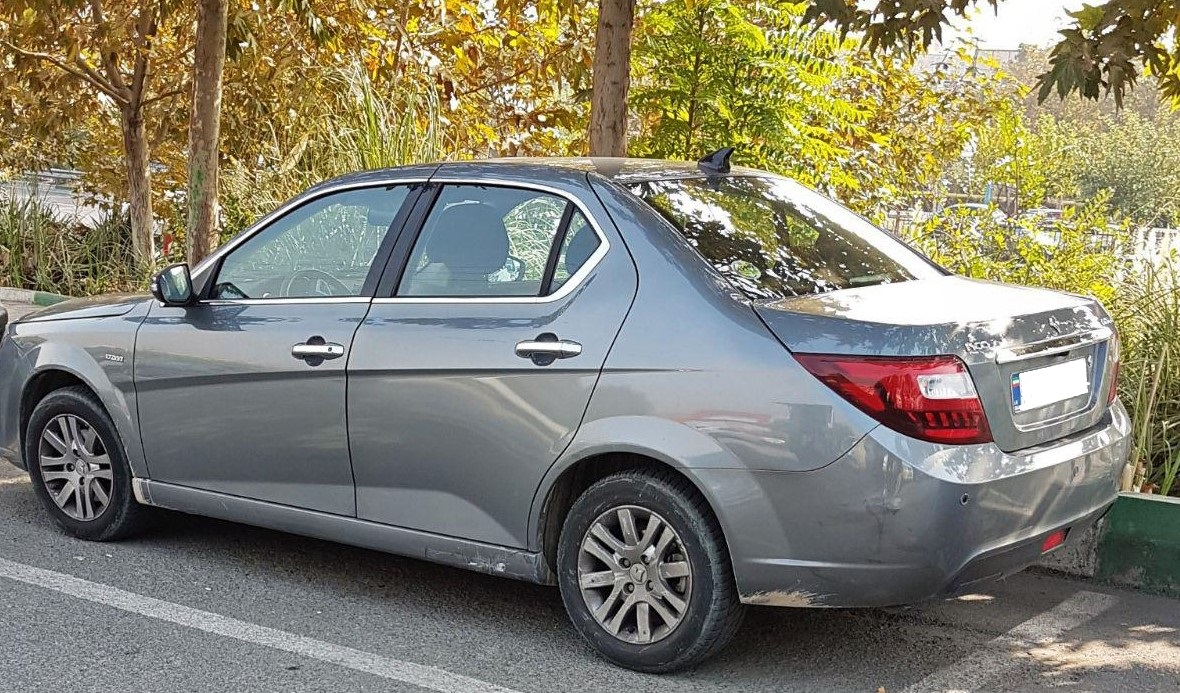 IKCO Dena is an Iranian car. It's a face-lifted version of IKCO Samand.